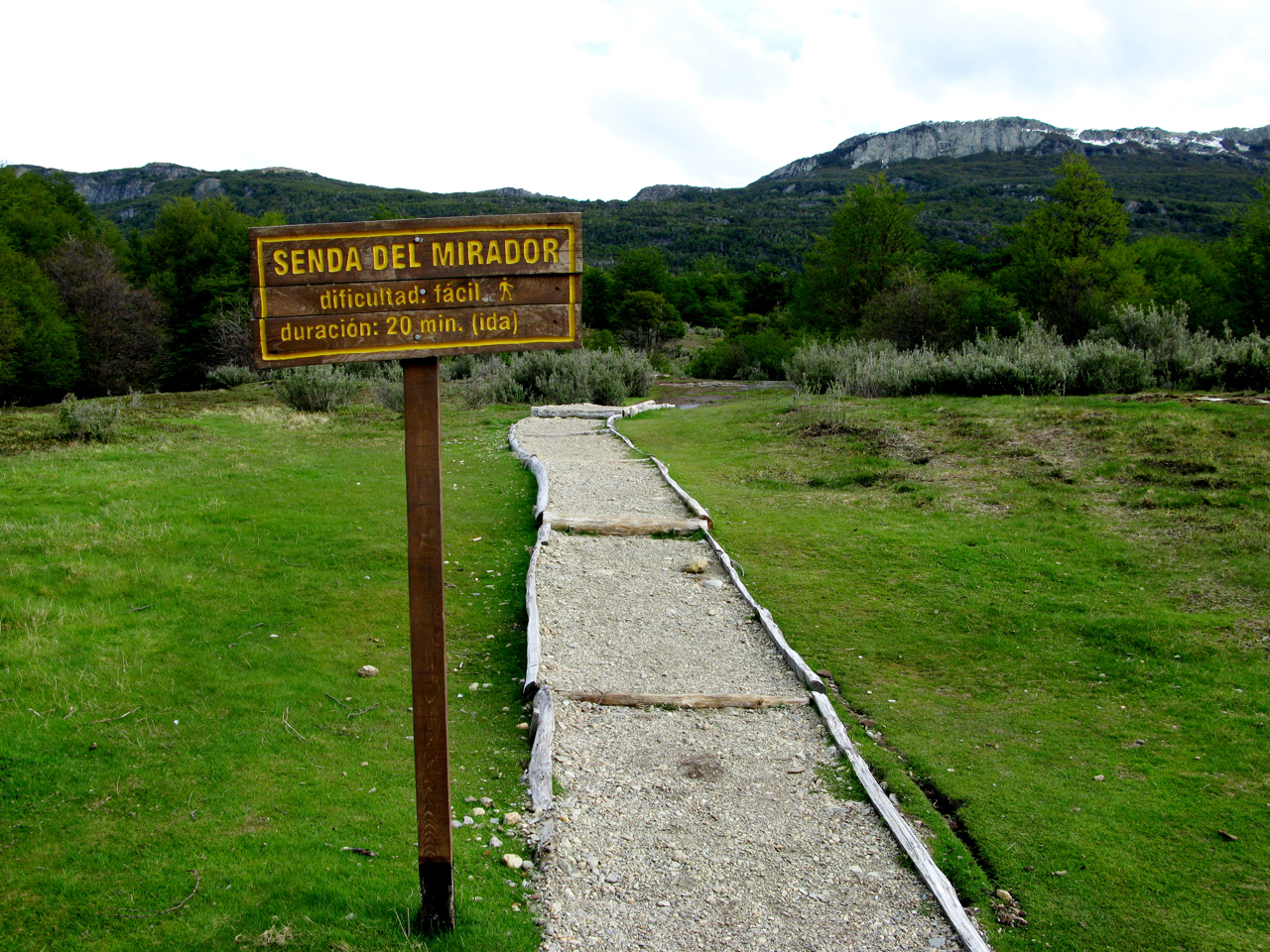 way of park national Tierra del Fuego